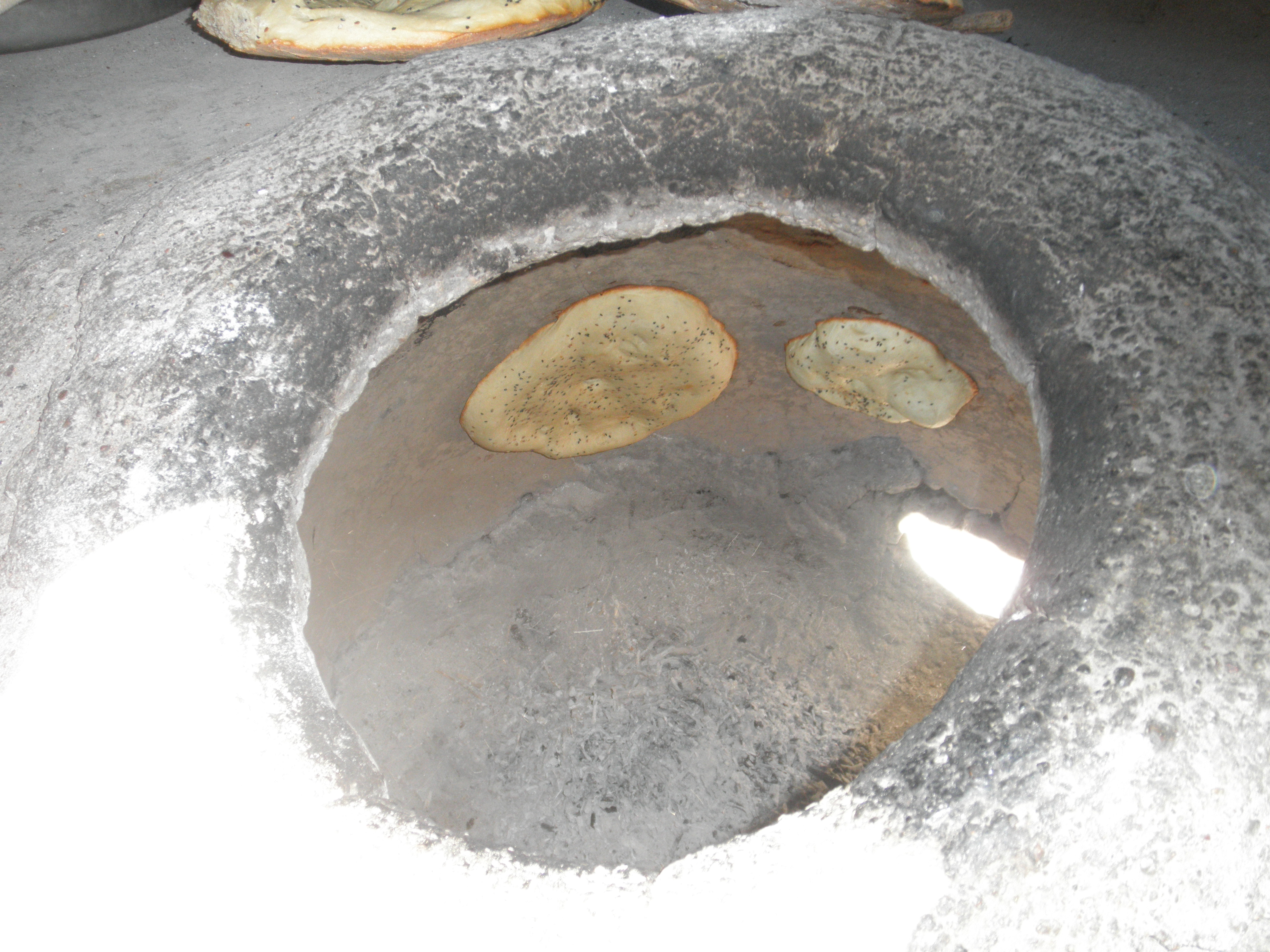 Cooking bread in tandoor in Dargeçit, Turkey.Kurdî: Nanê tenûrê li Kerboranê.